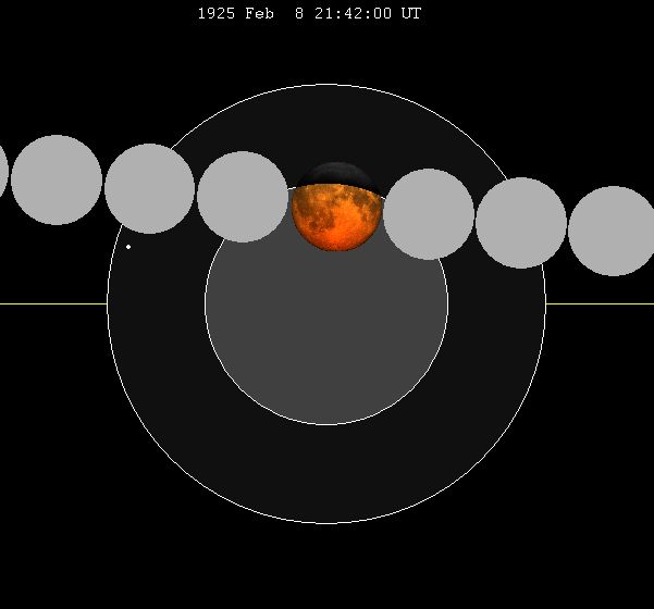 February 1925 lunar eclipse chart of moon's path through the earth's shadow. thumb